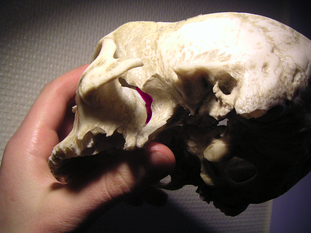 This image shows the pterygopalatine fissure. Deep to this area, and lateral to the pterygoid canal is the pterygopalatine fossa. It is the concave area leading to the canal.